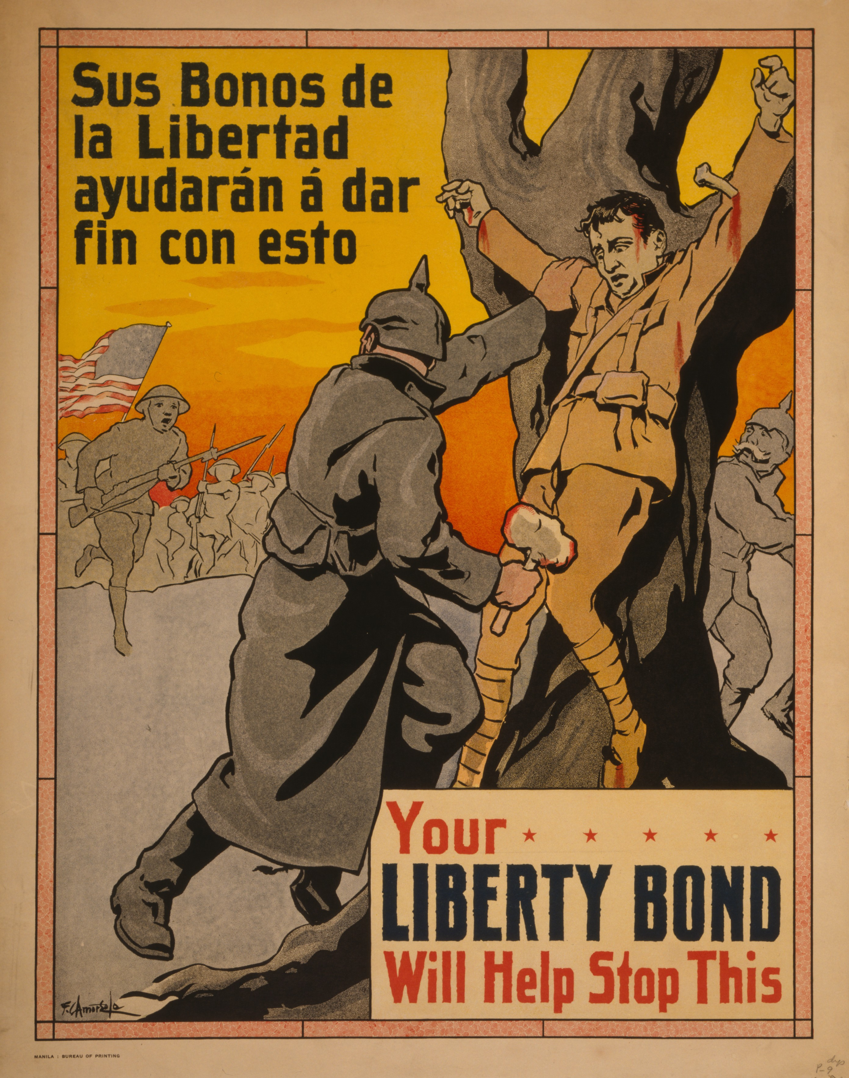 Poster showing German soldiers nailing a man to a tree, as American soldiers come to his rescue. "Your Liberty Bond will help stop this - Sus bonos de la libertad ayudarán á dar fin con esto". Published in Manila by Bureau of Printing. Poster measures 72 by 56 centimetres (28 in × 22 in).